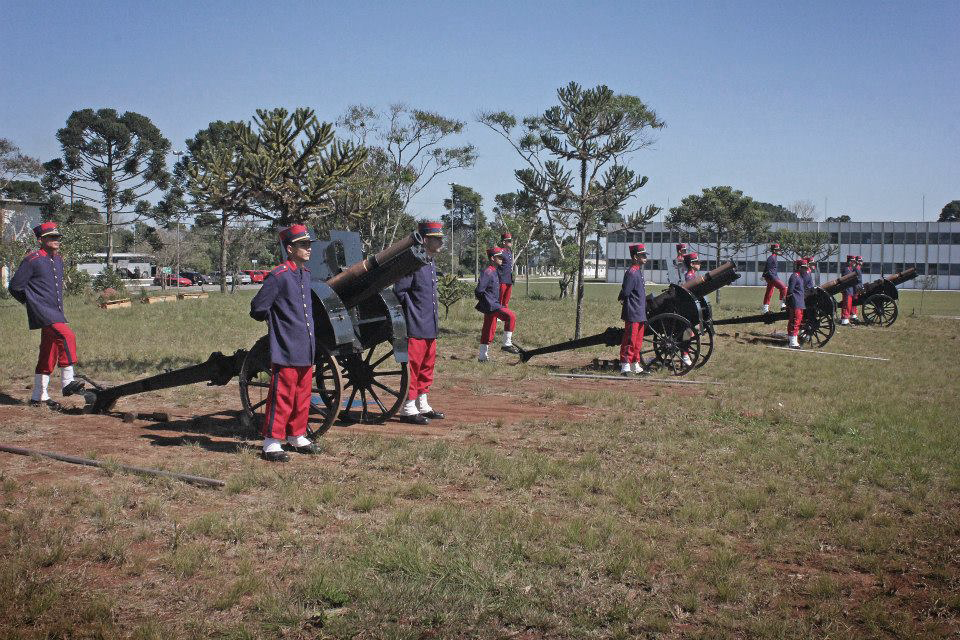 A Schneider canon battery in use by the Brazilian Army during a ceremony